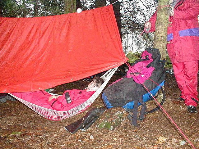 Bivvy on an island. On Eilean Gorm (Green Island) in Loch Ard. We had canoed over & were camping/bivvying on the island for a couple of nights.